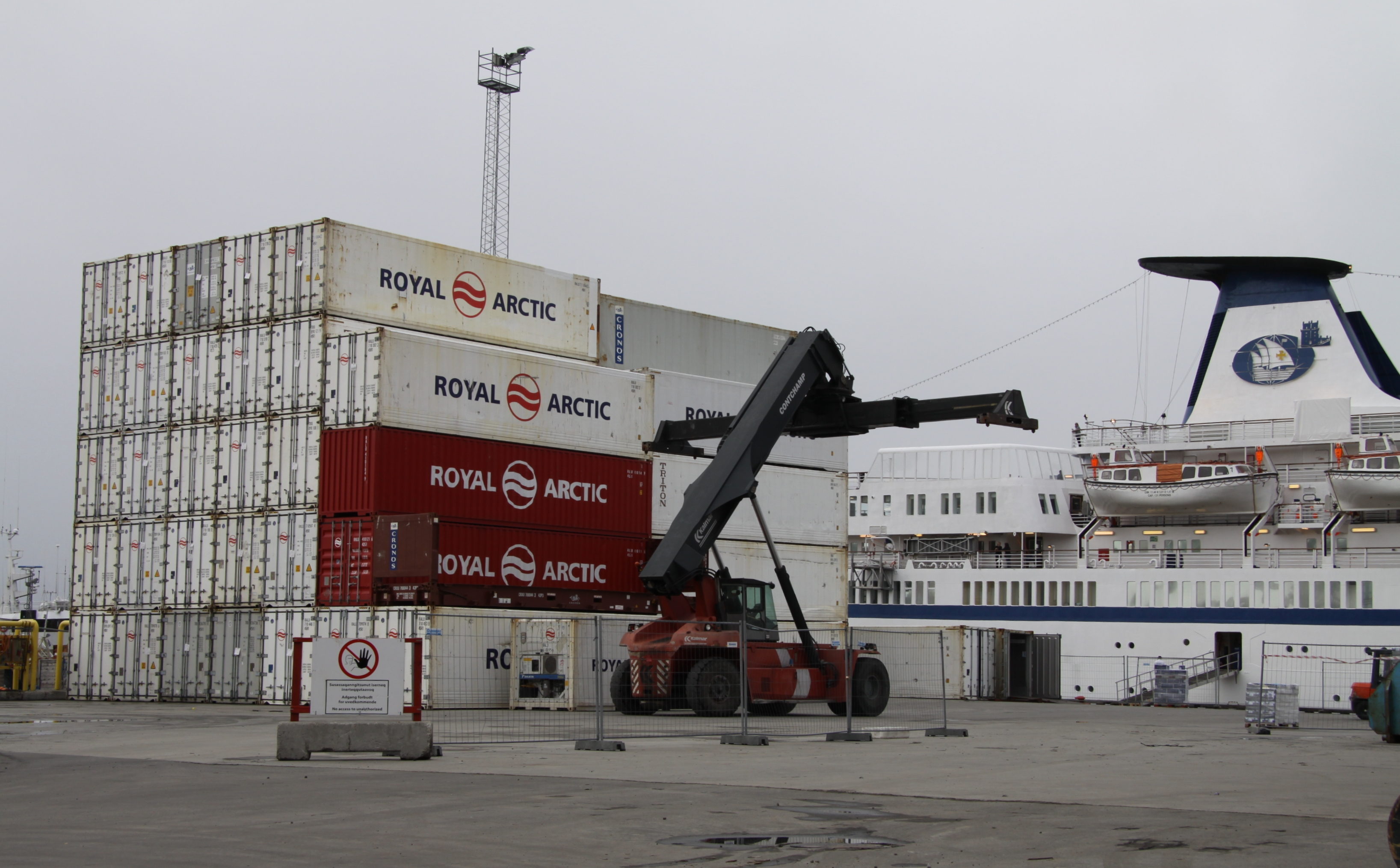 Kalmar Contchamp, Sisimiut Port, Greenland.